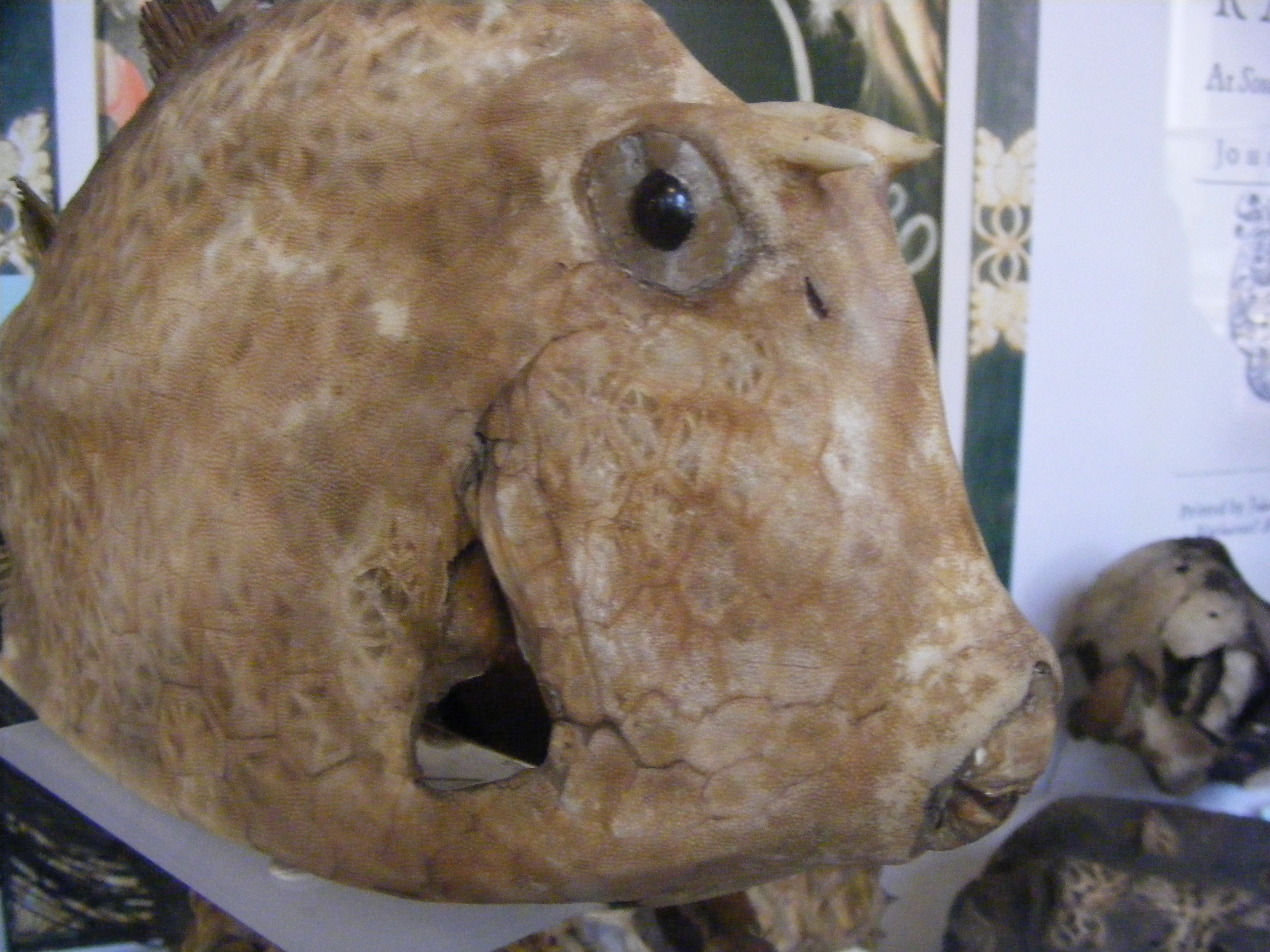 Acanthostracion quadricornis mounted specimen from Oxford Museum of Natural History